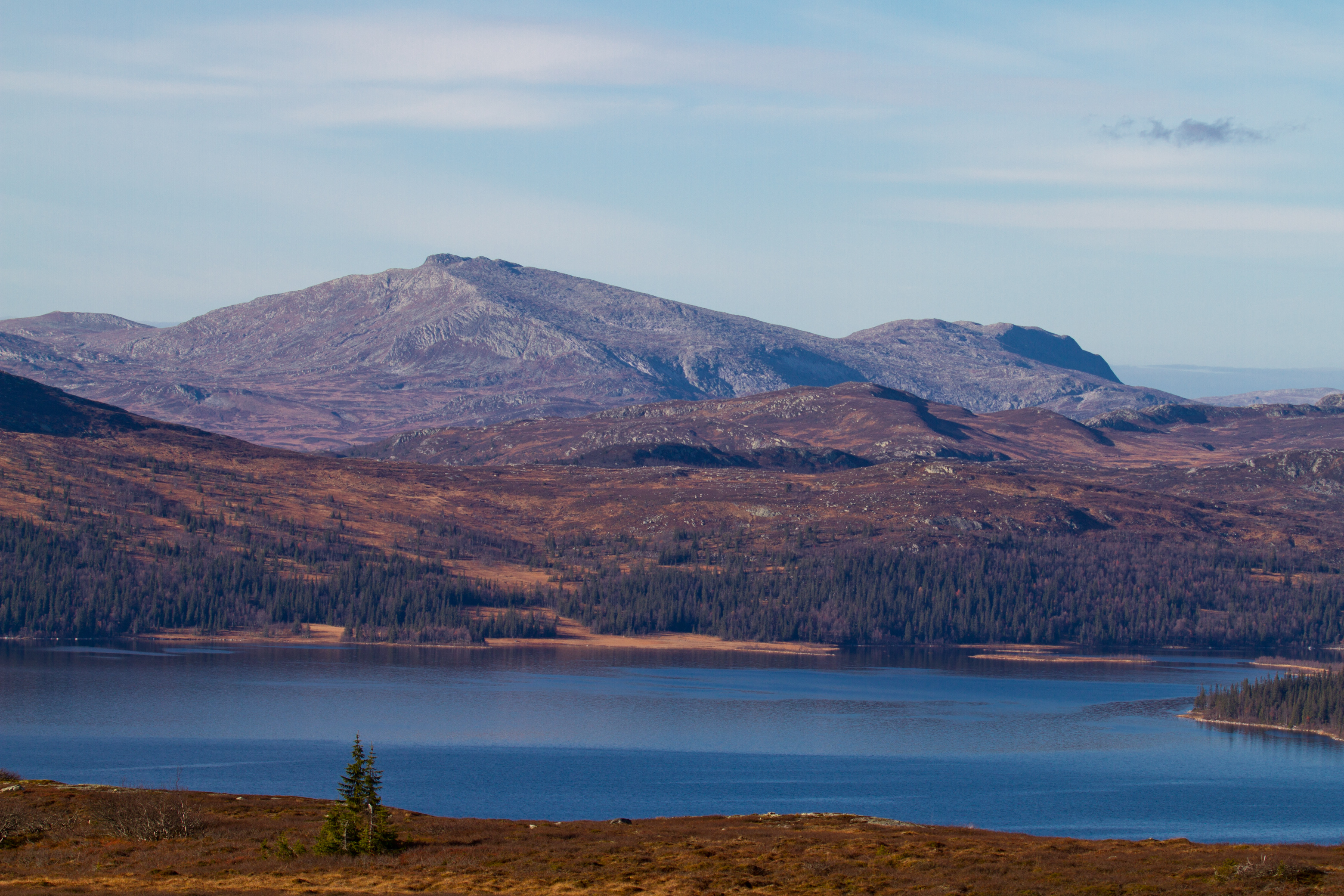 Mjölkvattsfjället (Mealhkantjahke) in Jämtland, Sweden. View from southeast. In the foreground is lake Övre Oldsjön.